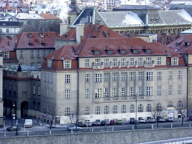 Faculty of Nuclear Sciences and Physical Engineering CTU (view over Vltava river, Břehová Street)